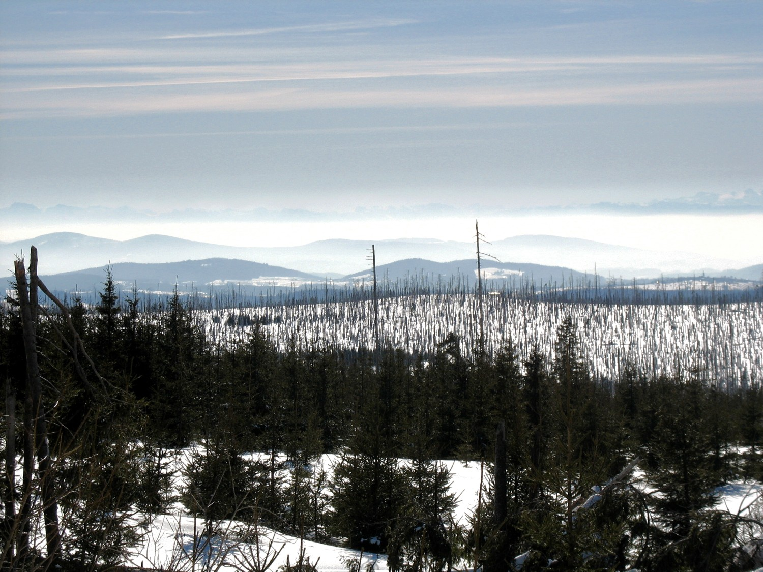 The view of the Alps from the mountain Černá hora in the Šumava Mts., Czech republic